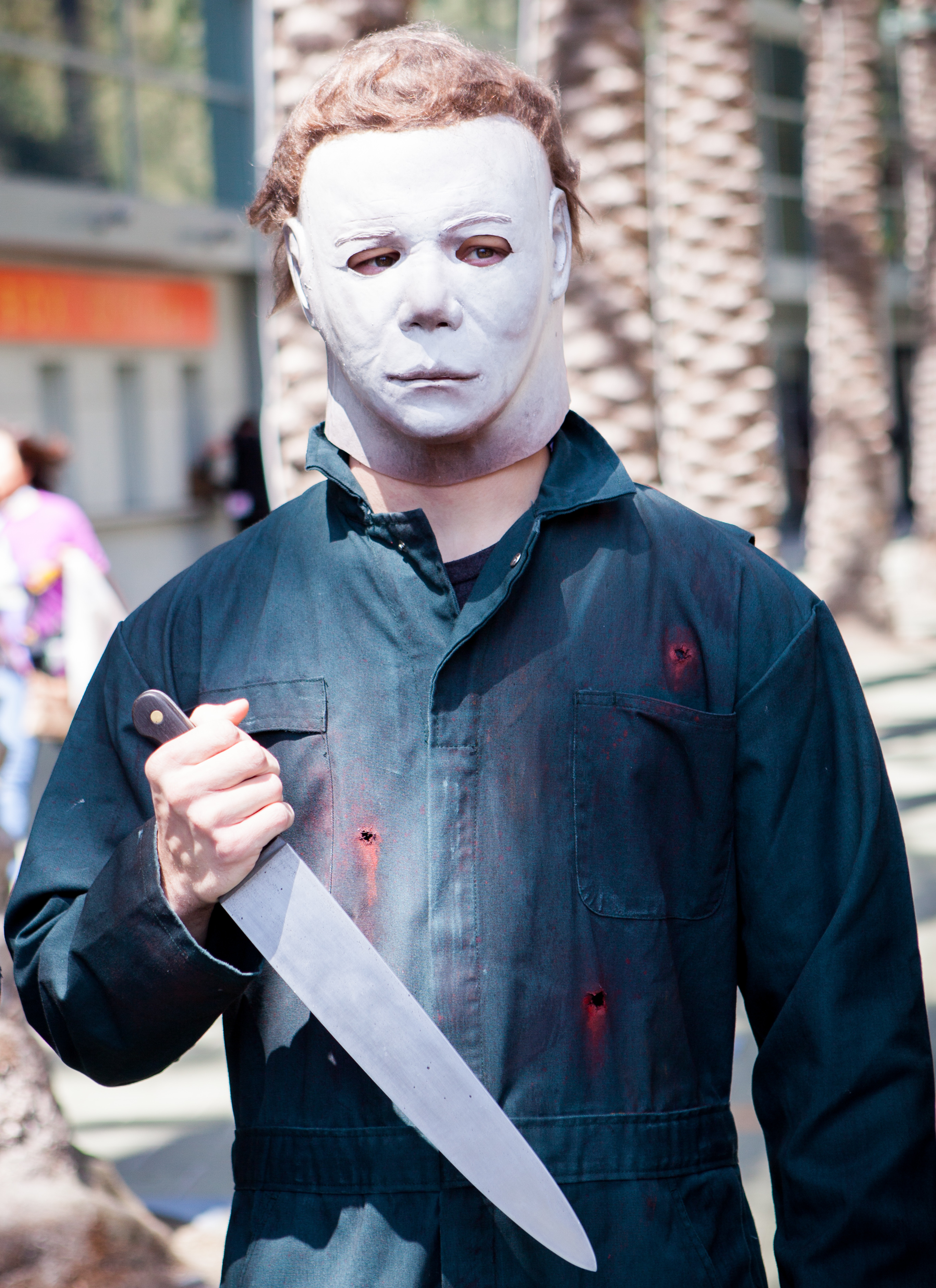 Wondercon 2015-8026